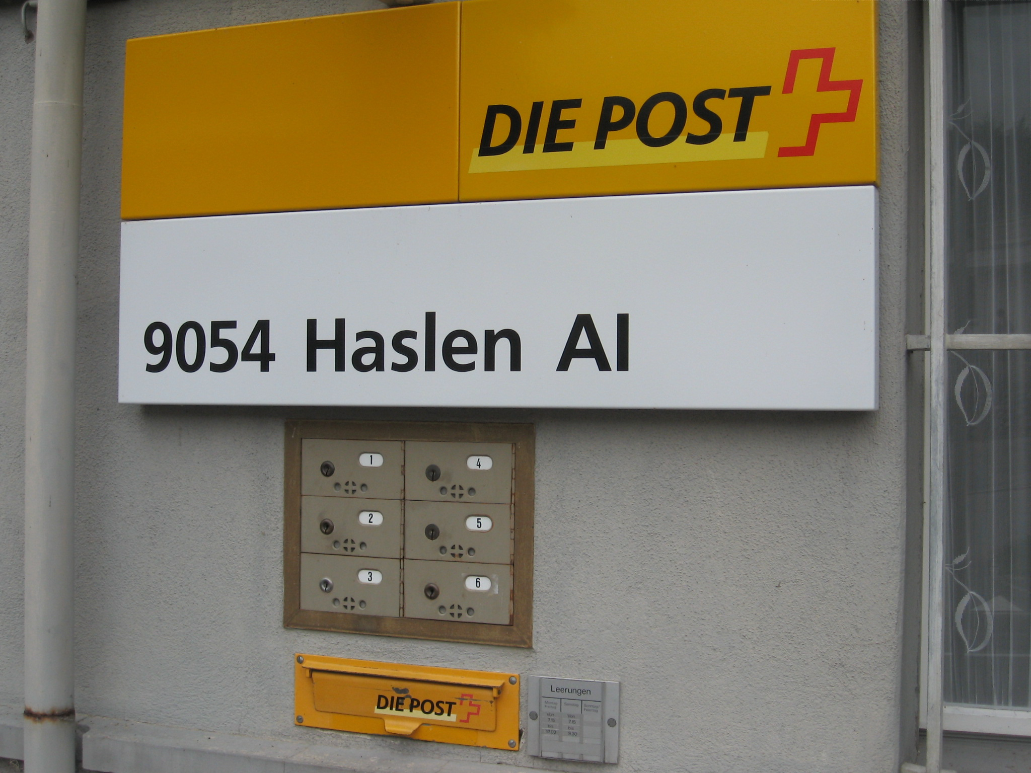 Letterbox and Post Office Boxes at the post office in Haslen AI